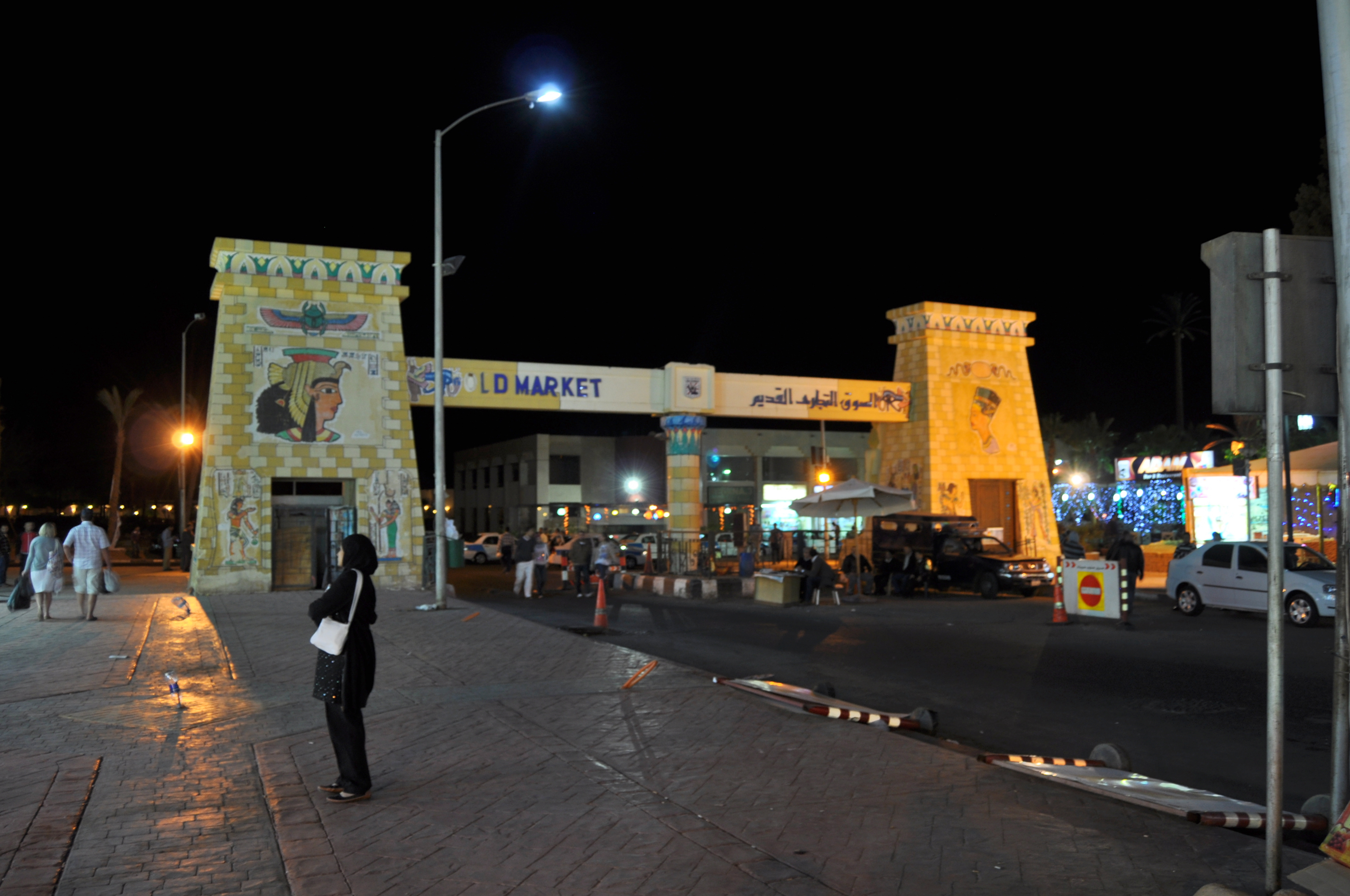 A very much liked holiday destination.